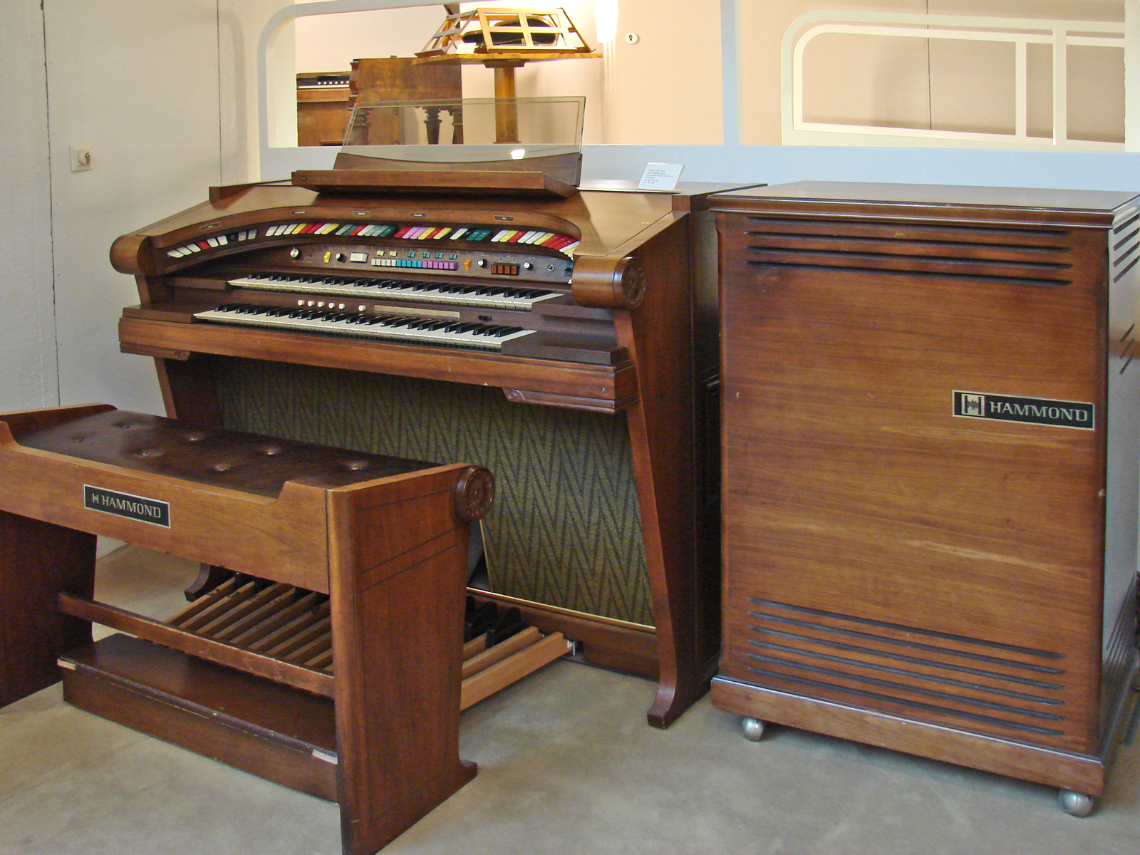 Hammond organ with its Leslie cabinet. The Museum of Musical Instruments (Berlin) is installed since 1984 in buildings in direct communication with those of the Berlin Philharmonic. The architects of the museum building are: Hans Scharoun and Edgar Wisniewski. The history of the museum begins with the creation in 1888 by the Prussian state of "collection of antique musical instruments. Among the directors who succeeded at the head of the institutions prior to the current museum, Curt Sachs is considered one of the largest with the publication of the first catalog of the collection (3200 pieces). After war, Alfred Brener has managed to raise the funds completely decimated during the hostilities. Today, in the new museum, all collections were pooled. A concert hall with 200 seats is integrated into showrooms.